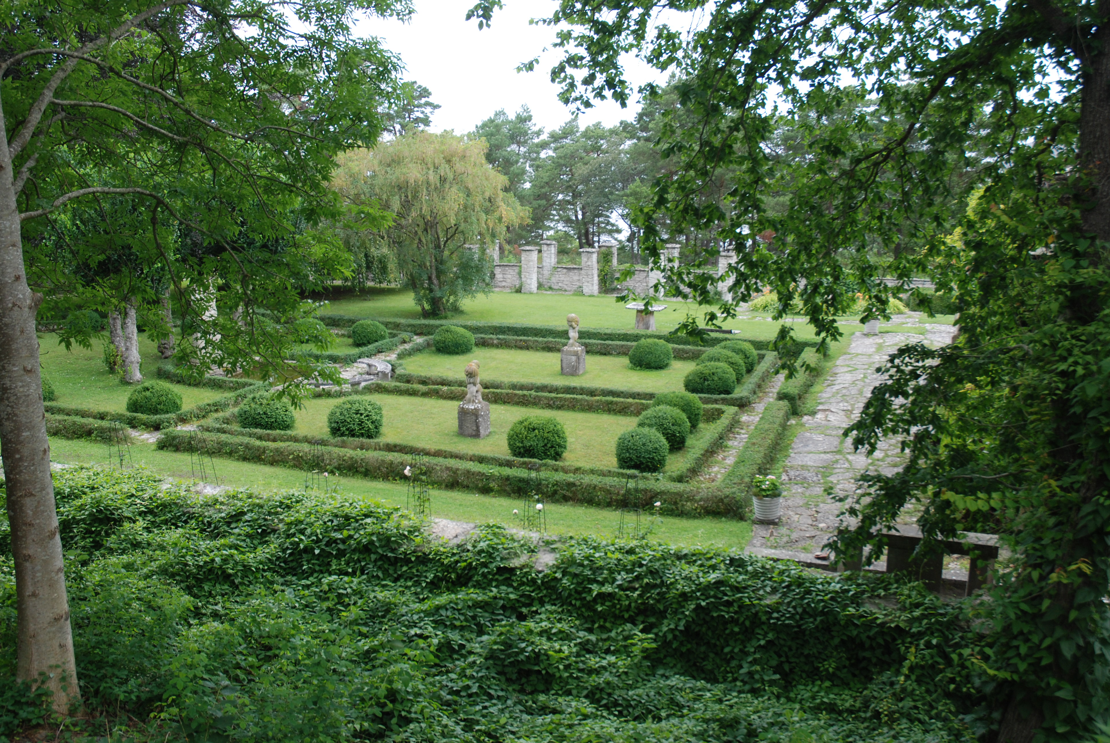 The former baroque garden of Villa Muramaris, north of Visby, Gotland.